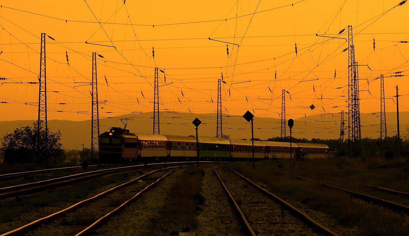 Chaika Express Train entering Dabovo Station in the foreground of a beautiful sunset above Sredna Gora mountain.